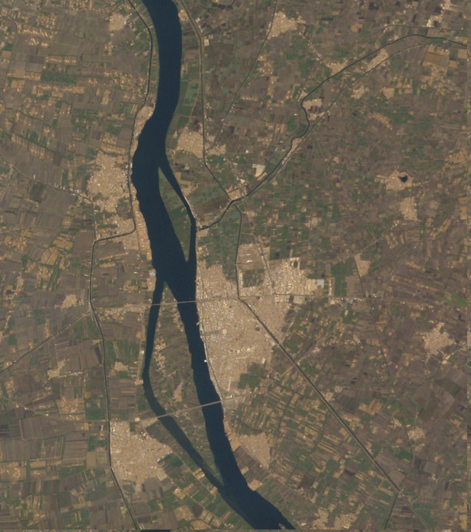 Satellite image of DesoukObject location31° 12′ 00″ N, 30° 36′ 00″ E